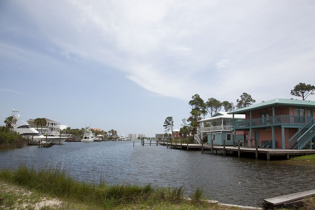 The beach community of Gulf Shores, Alabama.